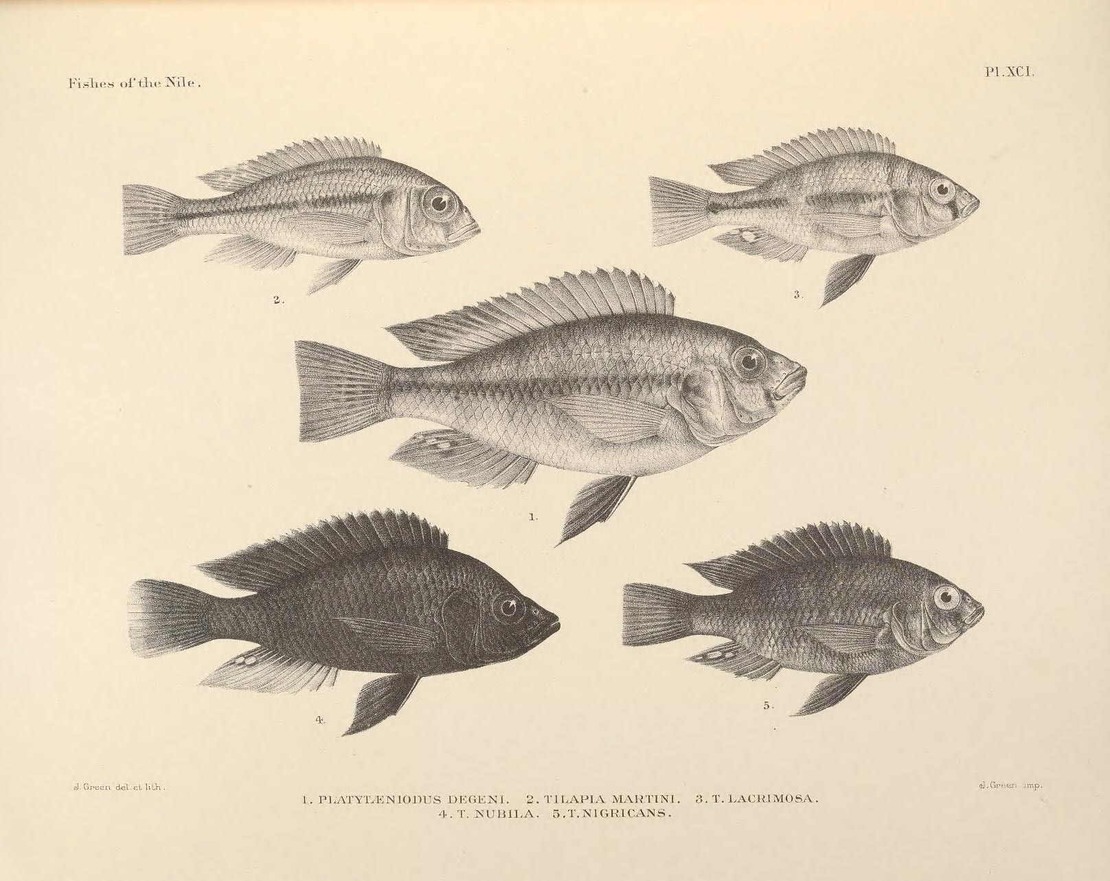 1. Haplochromis degeni, 2. Haplochromis martini, 3. Haplochromis lacrimosus, 4. Haplochromis nubilus, 5. Haplochromis nigricans